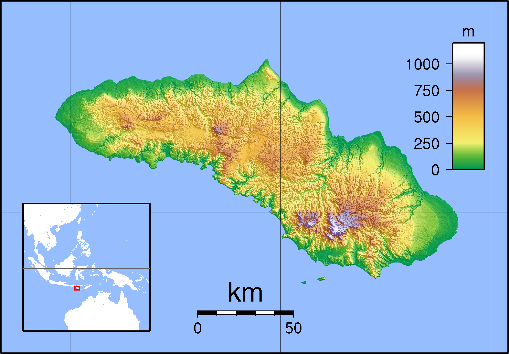 Topographic map of Sumba. Created with GMT from SRTM data.